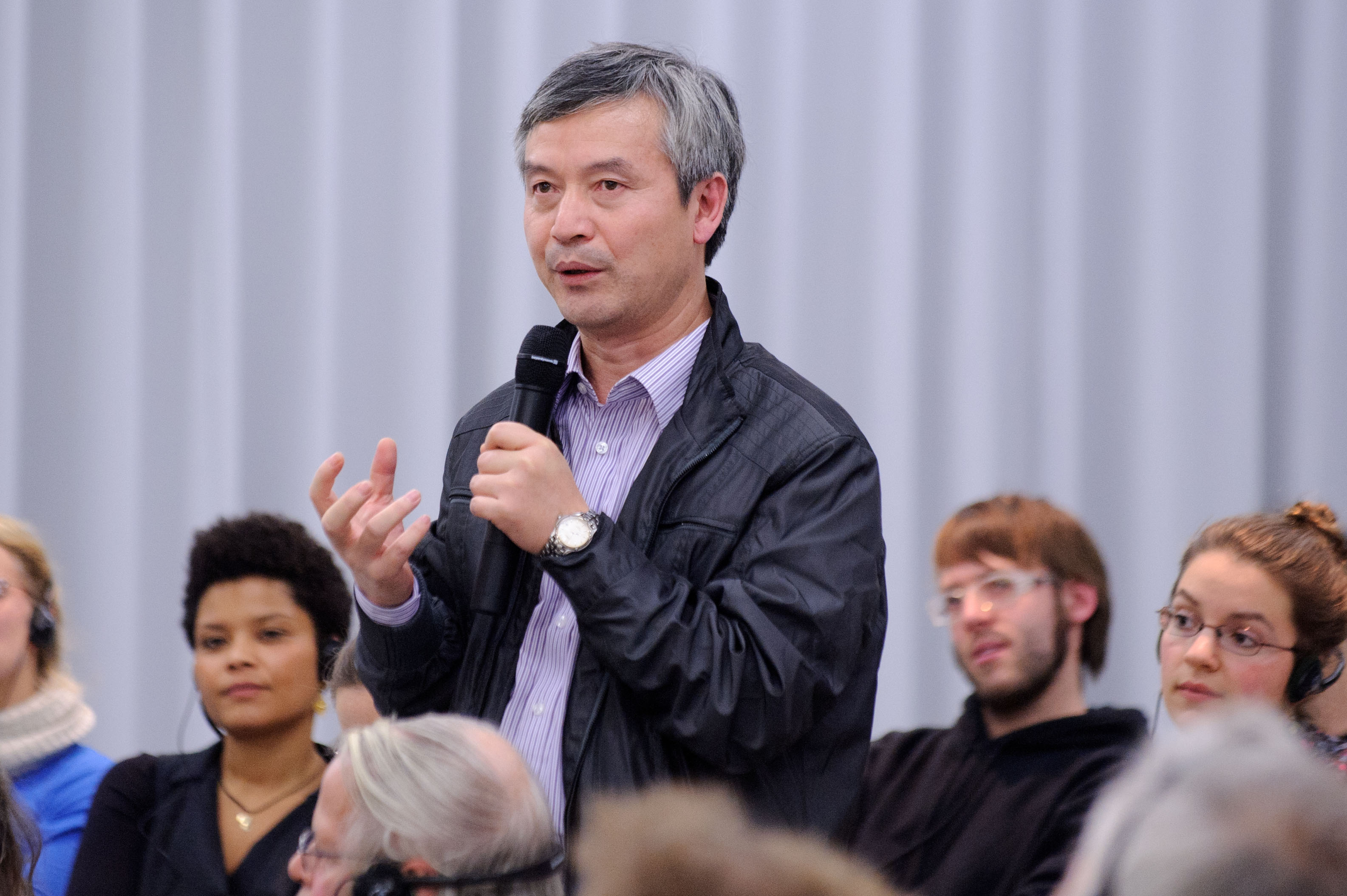 Prof. He Weifang (Juraprofessor an der Peking Universität) Foto: Stephan Röhl